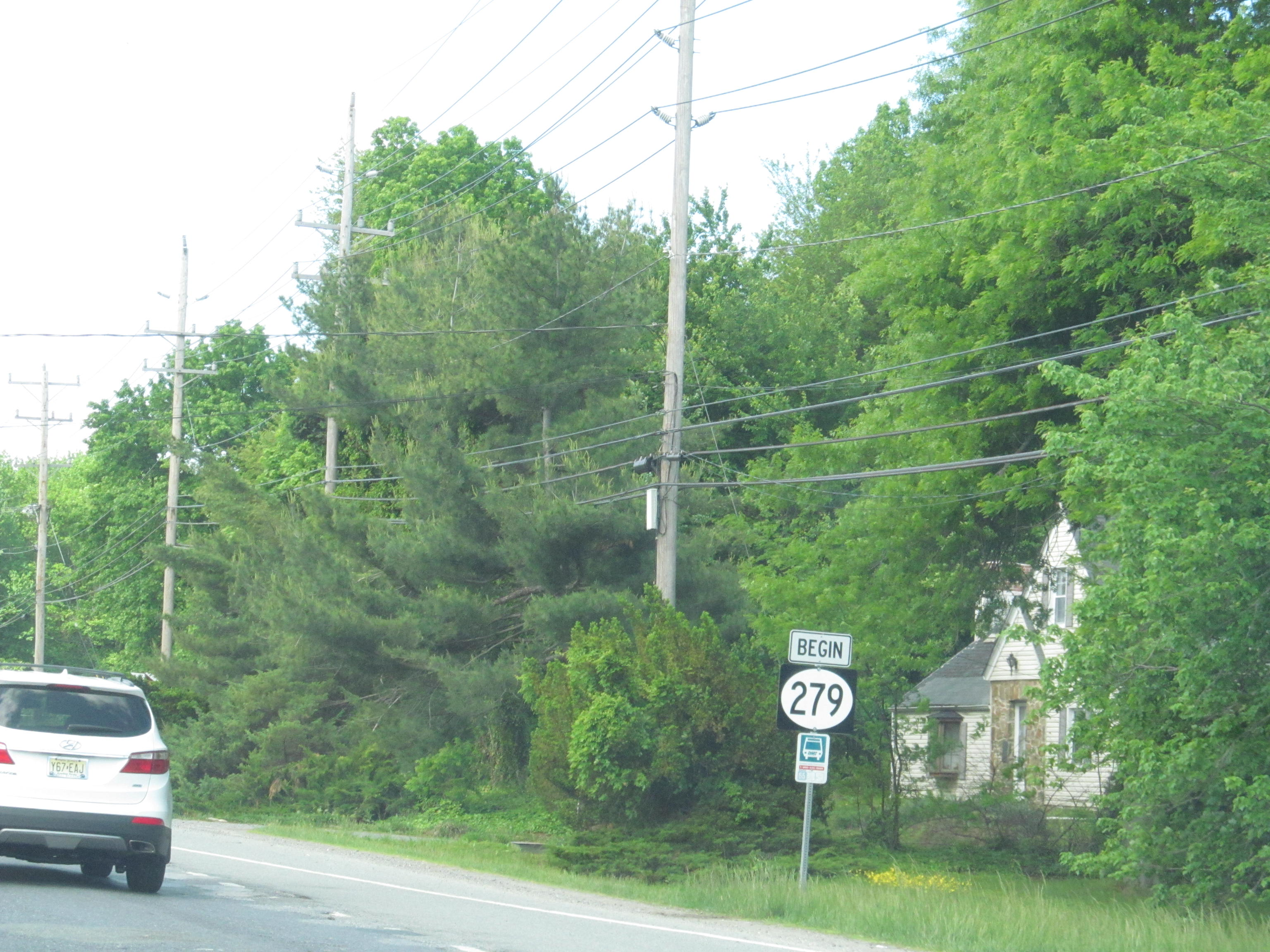 The beginning of westbound Delaware Route 279.